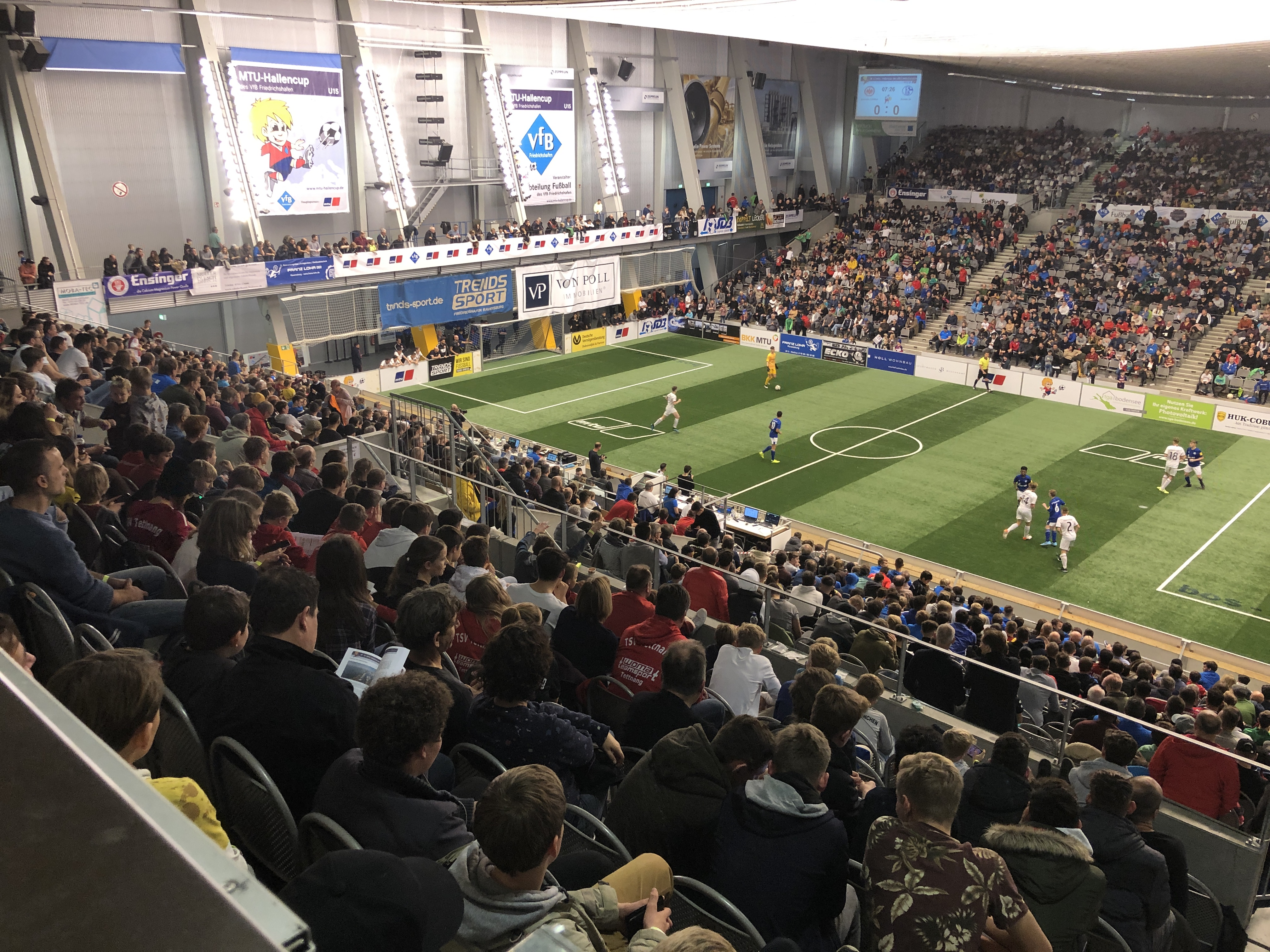 This picture shows ZF Arena in Friedrichshafen, Germany during MTU Cup 2019